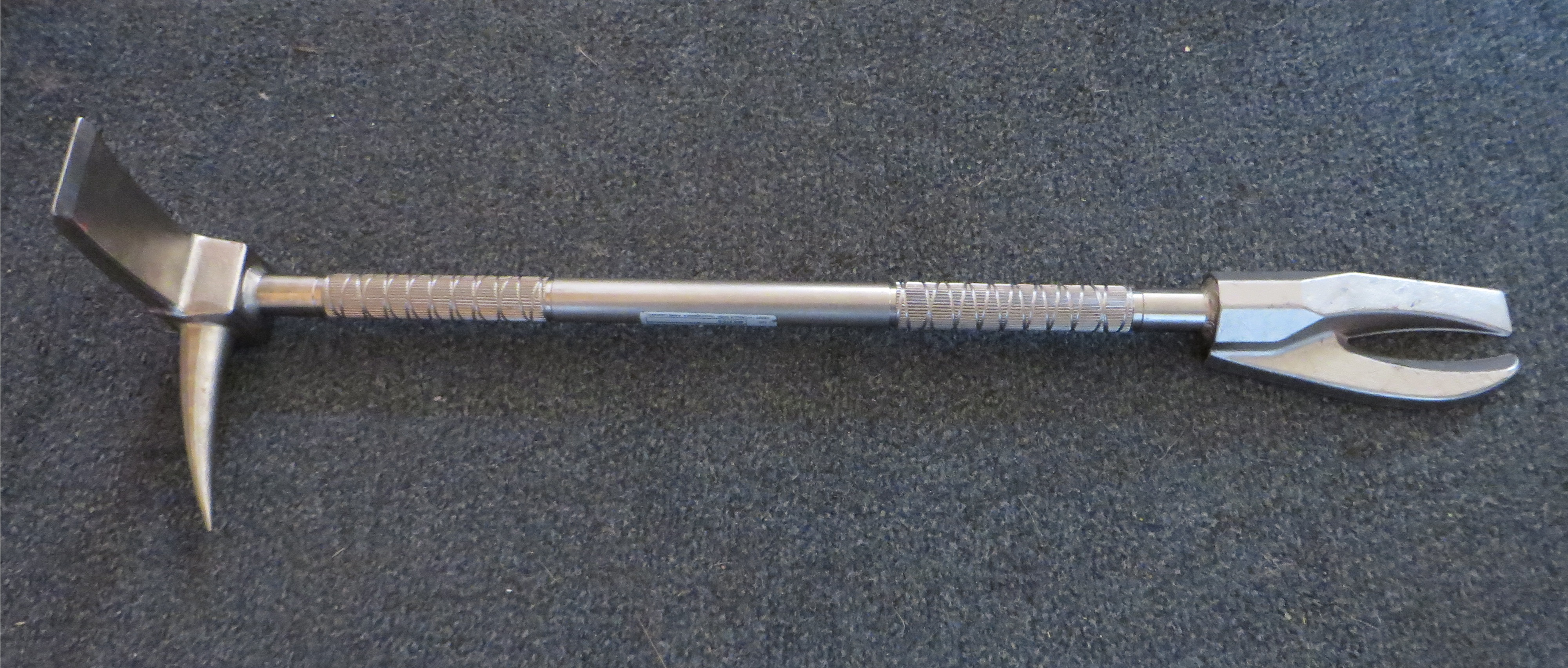 Halligan bar with wedge, pick and can opener